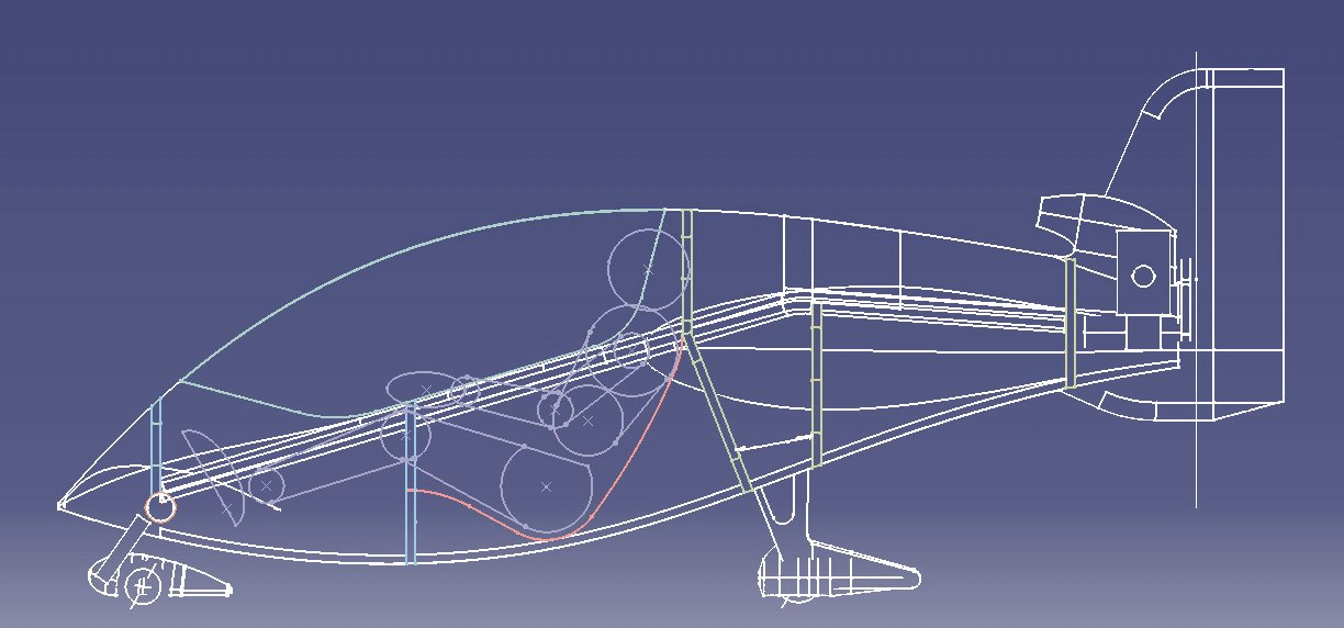 e-Go fuselage.